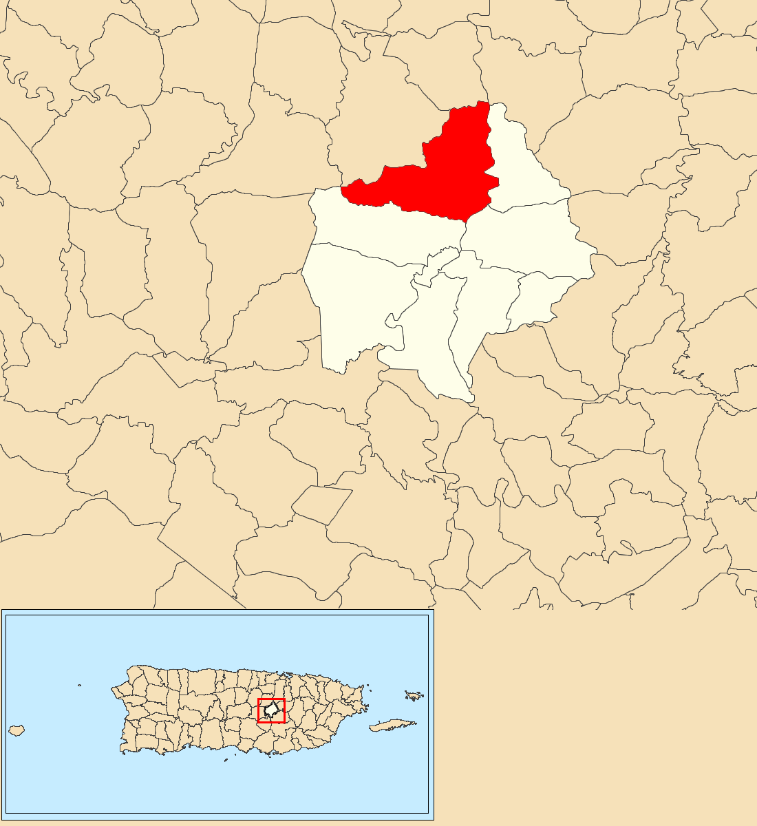 Doña Elena, Comerío, Puerto Rico locator map